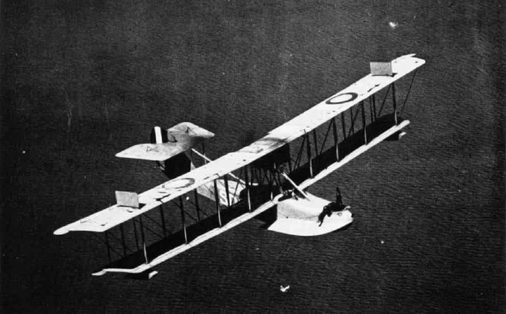 A U.S. Navy Curtiss HS-2L flying boat during the First World War. Note that the observer in the bow has just dropped a message, visible below the plane.